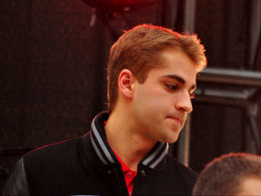 Team Canada forward Freddie Hamilton at a press conference for the 2012 World Junior Championships on December 23, 2011, in Edmonton, Alberta.